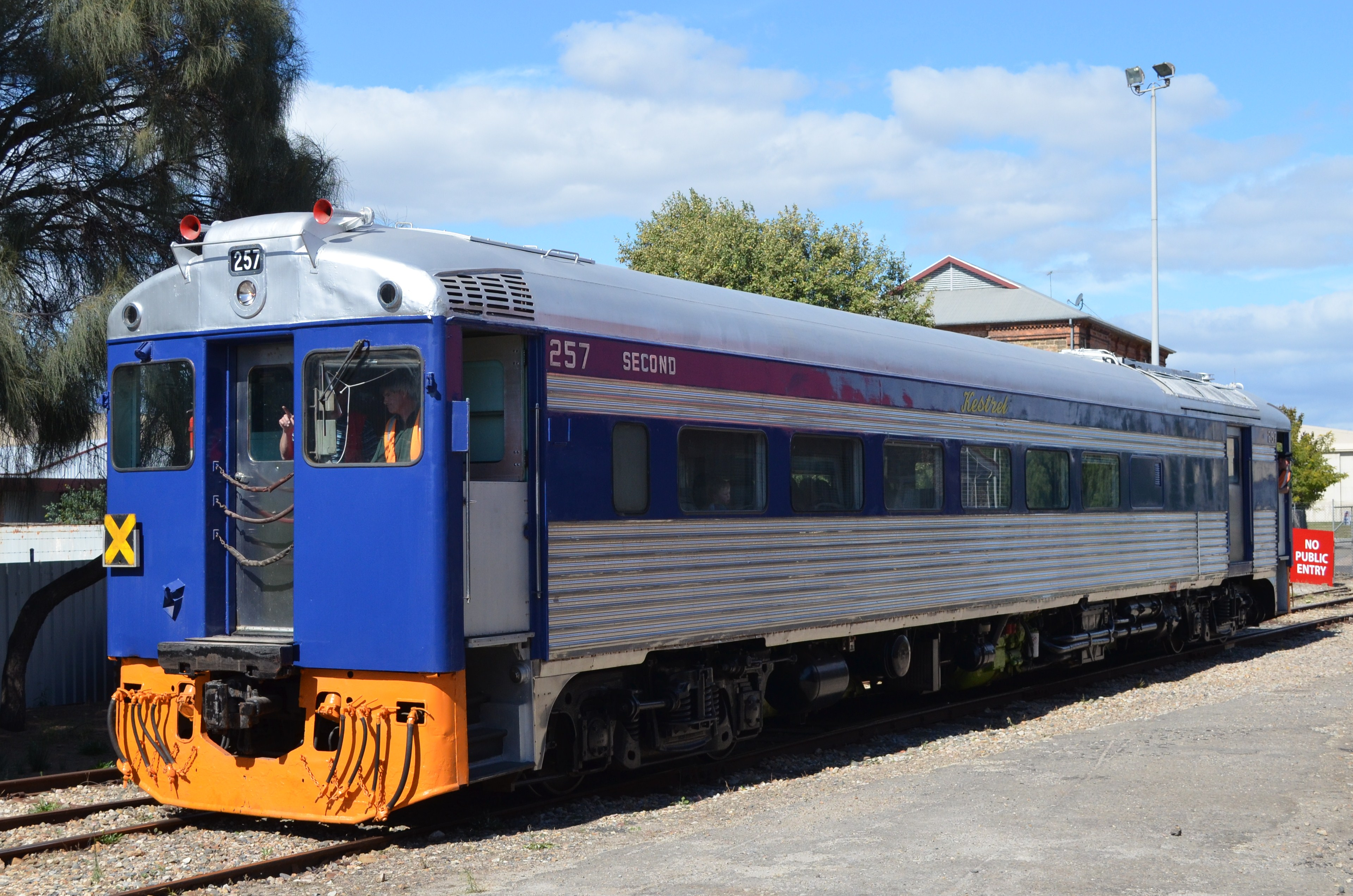 Preserved ex-South Australian Railways Bluebird railcar no. 257 Kestrel, operating out and back passenger services at the National Railway Museum (Port Adelaide).